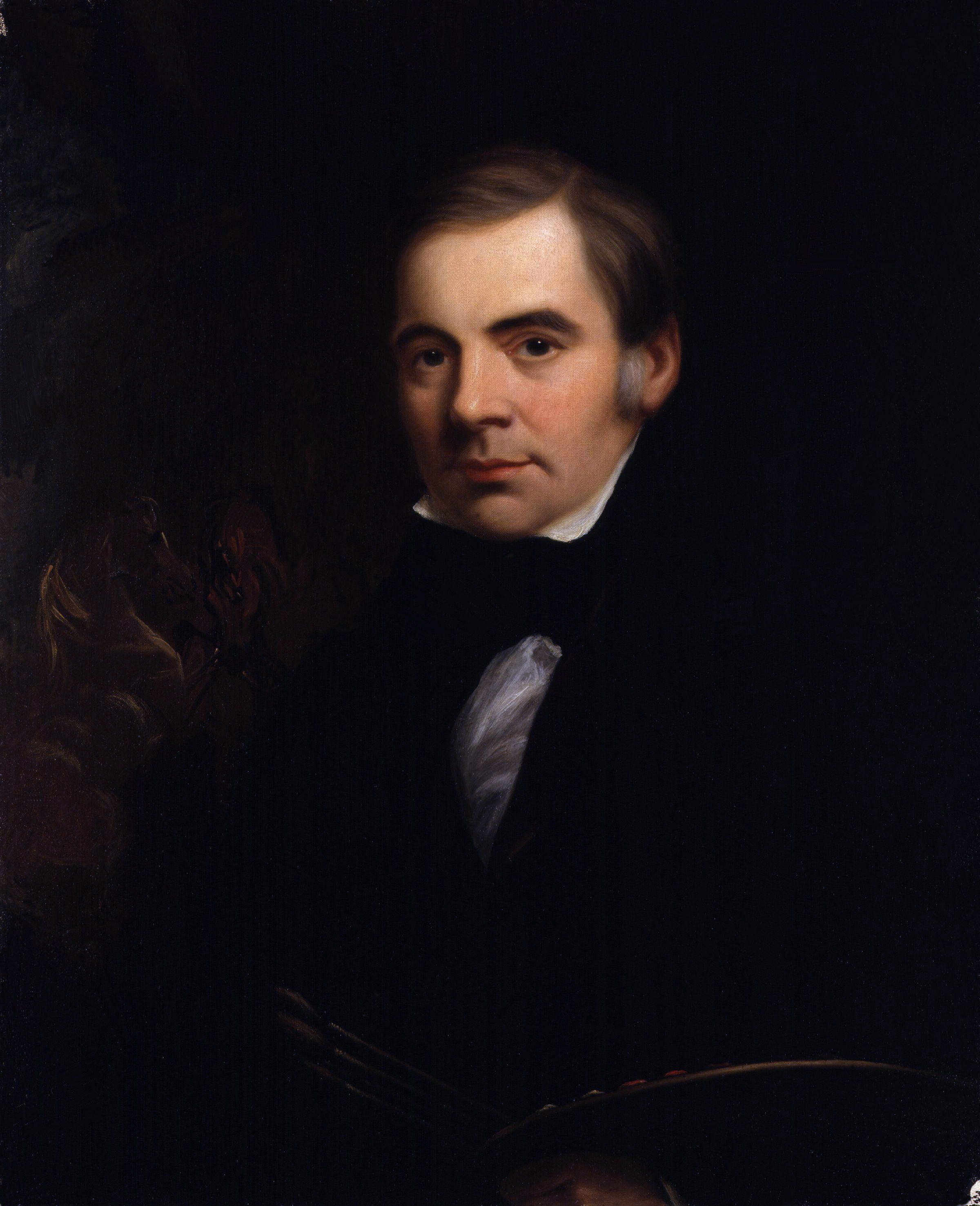 John Ferneley, by Henry Johnson (floruit 1824-1847), given to the National Portrait Gallery, London in 1924. All images in this batch have a known author with unknown death date, but according to the NPG's website the author was floruit (known to be active) prior to 1859, and so is reasonably presumed dead by 1939.